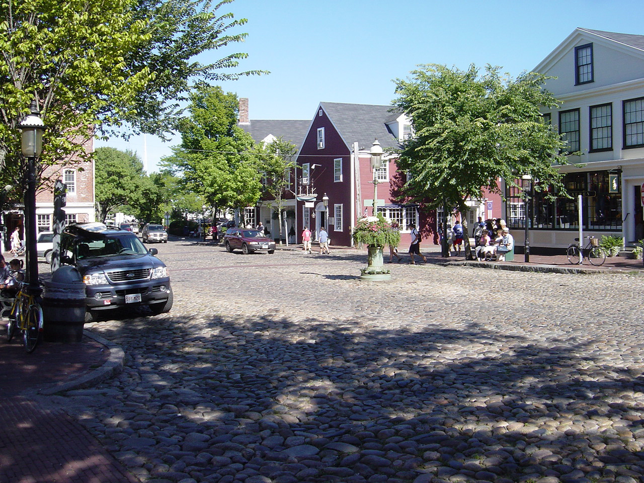 Downtown Main Street, Nantucket. Photo taken by Bobak Ha'Eri, August 2004. Please observe license and properly cite in use outside Wikipedia.